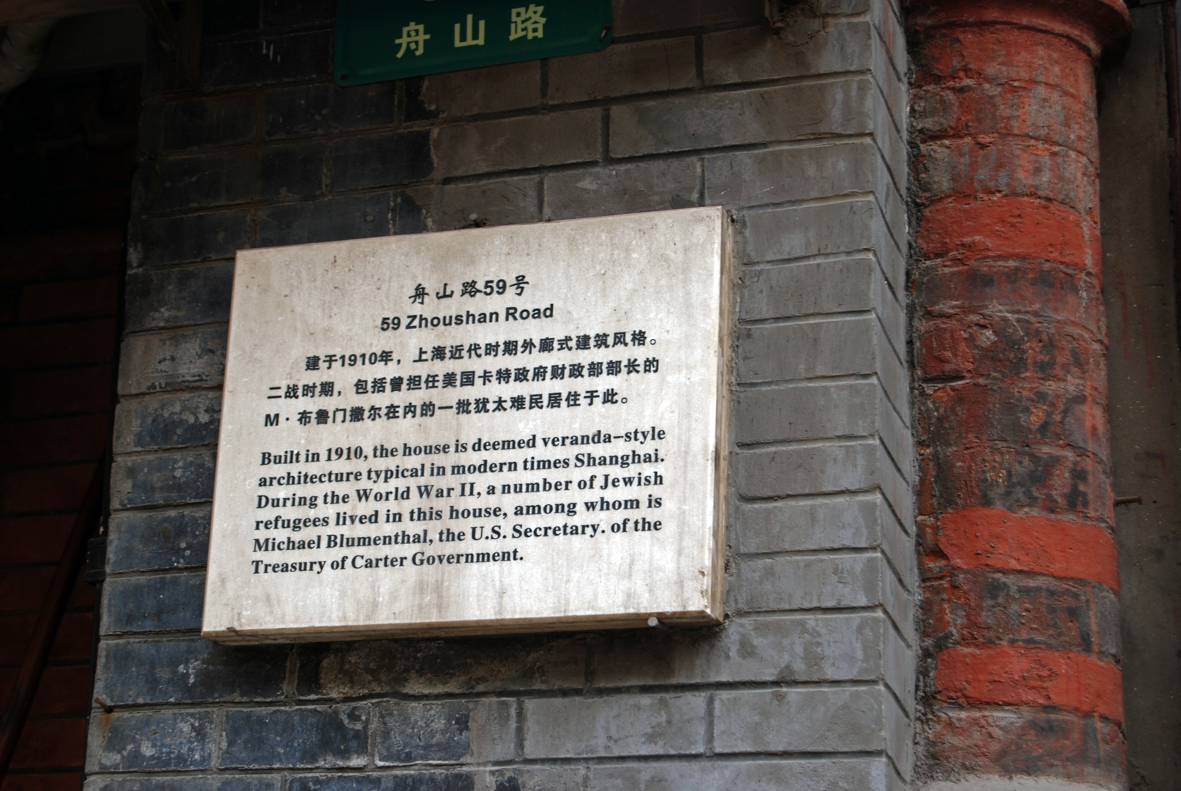 Historical plaque, Shanghai Jewish ghetto, China